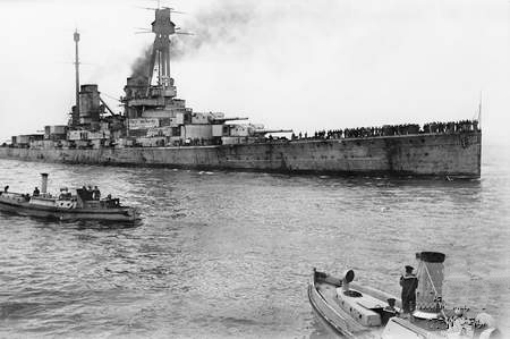 The German battlecruiser SMS Hindenburg arriving at Scapa Flow (UK), in 1918.